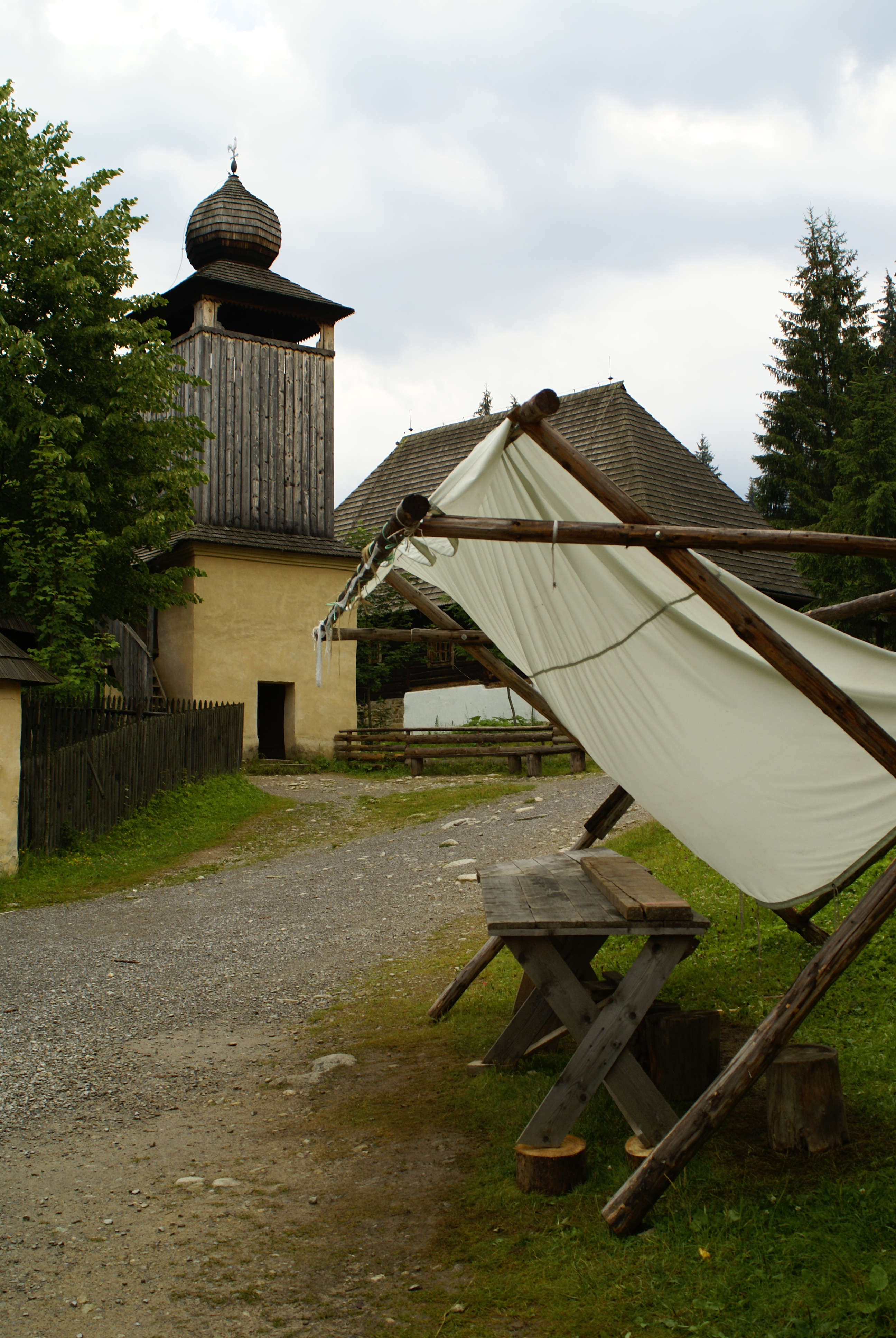 Open air museum of typical slovakian old Orava village, Zuberec, West Tatras, Slovak Republic